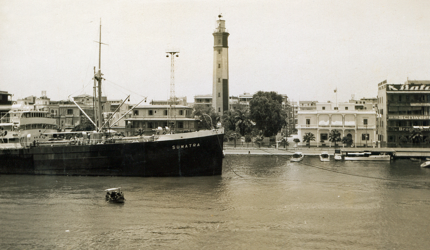 Port Said (Egypt): the lighthouse in the 1930's